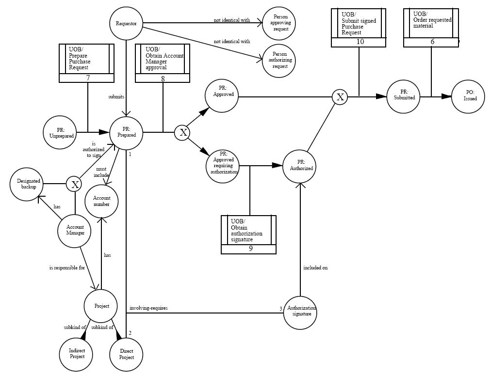 Figure 2-03 Example of a Enhanced Transition Schematic